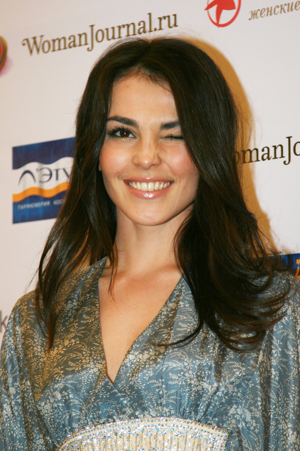 Sati Kazanova. Ex singer girls-band "Fabrika"